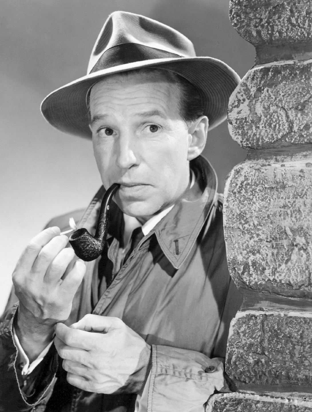 Photo of Lloyd Nolan as Martin Kane from the television version of Martin Kane, Private Eye. This was also a radio program and aired on radio and television from 1949 to 1954. During this time, four actors played the lead role.